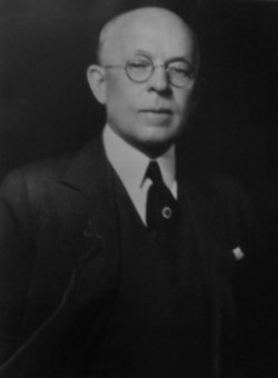 Photo of Clarence Shearn as justice of the New York State Supreme Court, Fist District, in 1914.